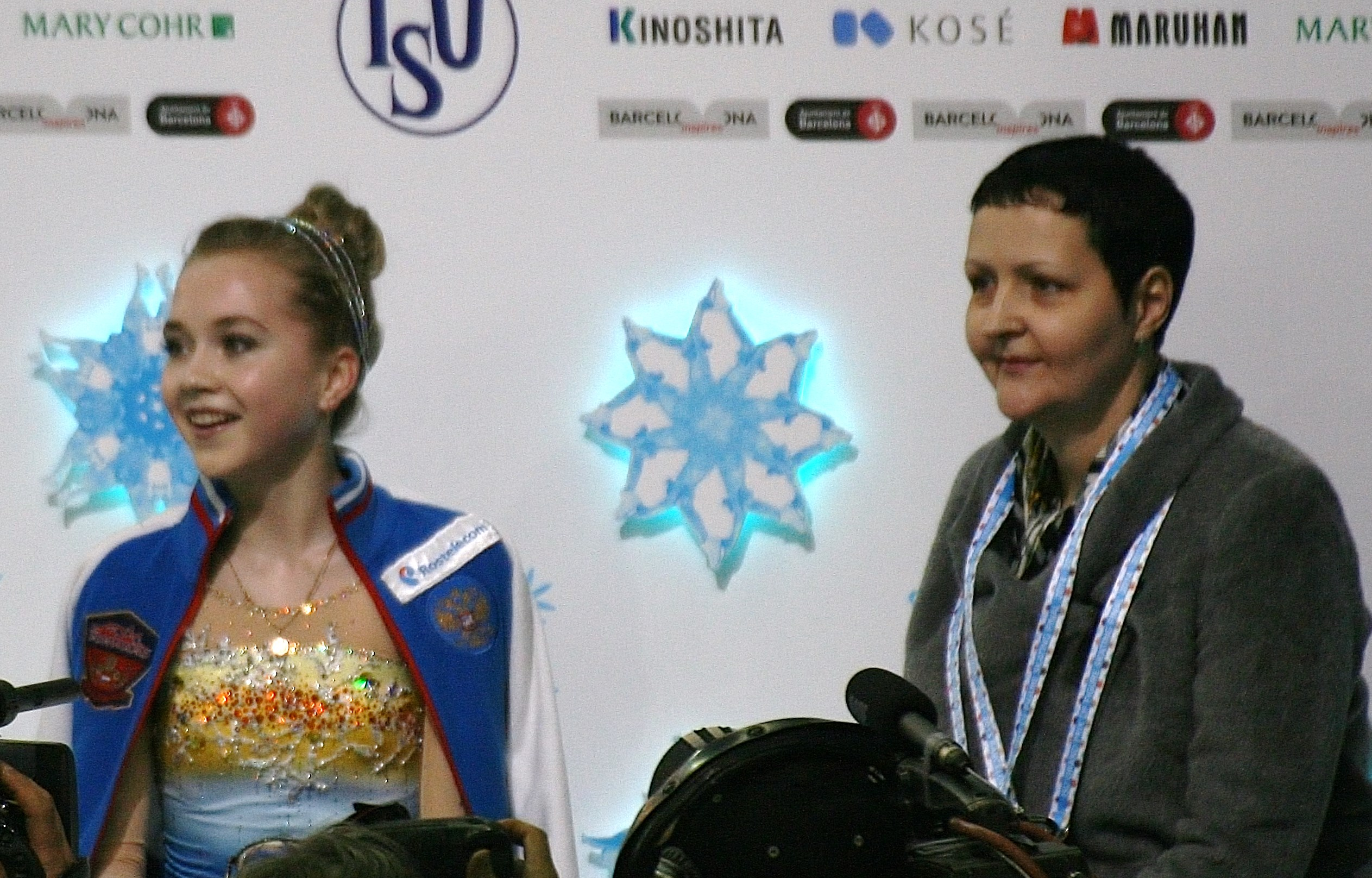 Elena Radonova (Russia) and her coach Inna Goncharenko at the finals of the Grand Prix of figure skating 2014-2015.